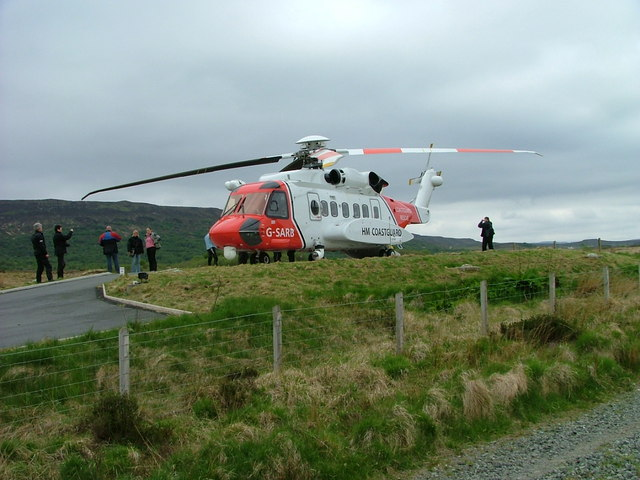 Coastguard Helicopter at Portree The Stornoway based Sikorsky S-92 Coastguard search and rescue helicopter on the helipad at Sluggans, Portree.